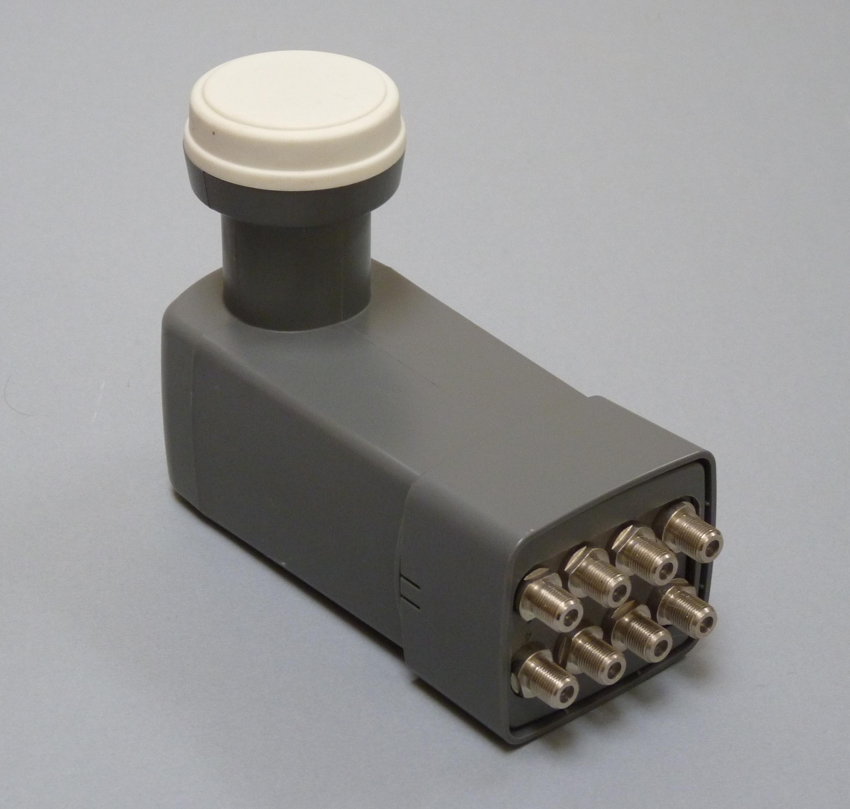 Octo LNB for satellite TV reception